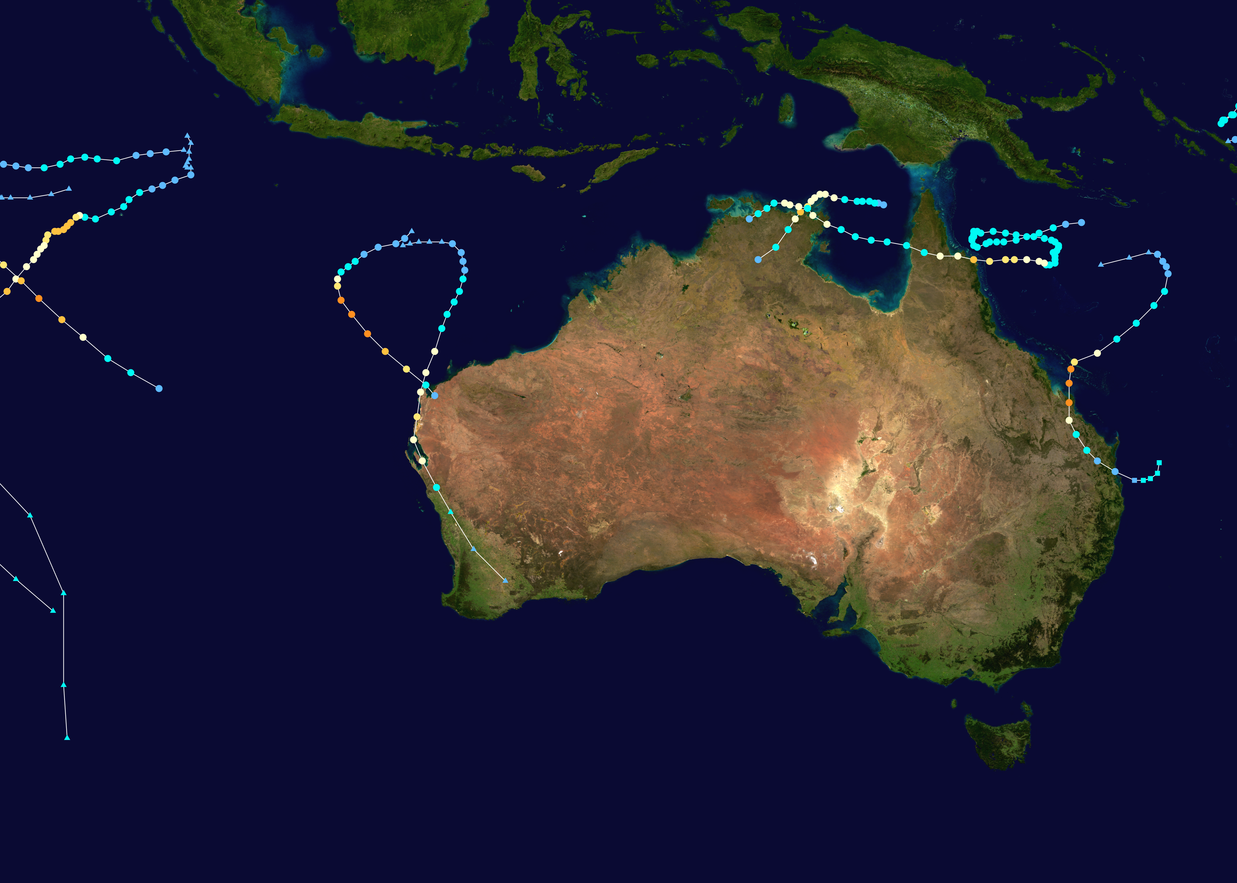 This map shows the tracks of all tropical cyclones in the 2014-15 Australian region cyclone season. The points show the location of each storm at 6-hour intervals. The colour represents the storm's maximum sustained wind speeds as classified in the Saffir-Simpson Hurricane Scale (see below), and the shape of the data points represent the type of the storm. Saffir–Simpson scale Tropical depression≤38 mph≤62 km/h Category 3111–129 mph178–208 km/h Tropical storm39–73 mph63–118 km/h Category 4130–156 mph209–251 km/h Category 174–95 mph119–153 km/h Category 5≥157 mph≥252 km/h Category 296–110 mph154–177 km/h Unknown Storm type Tropical cyclone Subtropical cyclone Extratropical cyclone / Remnant low / Tropical disturbance / Monsoon depression